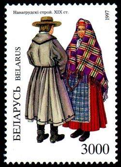 Navahrudski Stroj stamp